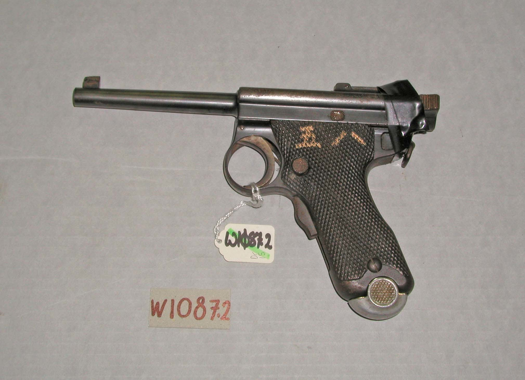 Japanese Nambu 1904 model semi-automatic pistol WW2 Pistolu Nambu Taisho 4 Nen semi-automatic pistol; 8mm calibre; automated grip safety type- Type 4 or Type A 'Grandpa Nambu'; KO (Koishikawa marking); 4th year type pistol Model 1915 (1914); moveable lanyard loop under cocking lever; rear sight has been taped with black electrical tape, may be loose or missing retaining pin accessories- magazine- chromed magazine with heavy aluminium base missing- possible part from rear of cocking lever markings- serial number on right rear of body below Japanese characters- 6057 two Japanese characters painted on left hand butt plate on rear base of magazine- 6094 manufacturer- Japan, Koishikawa arsenal, c.1920s